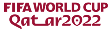 Copa Mundial de la FIFA 2022